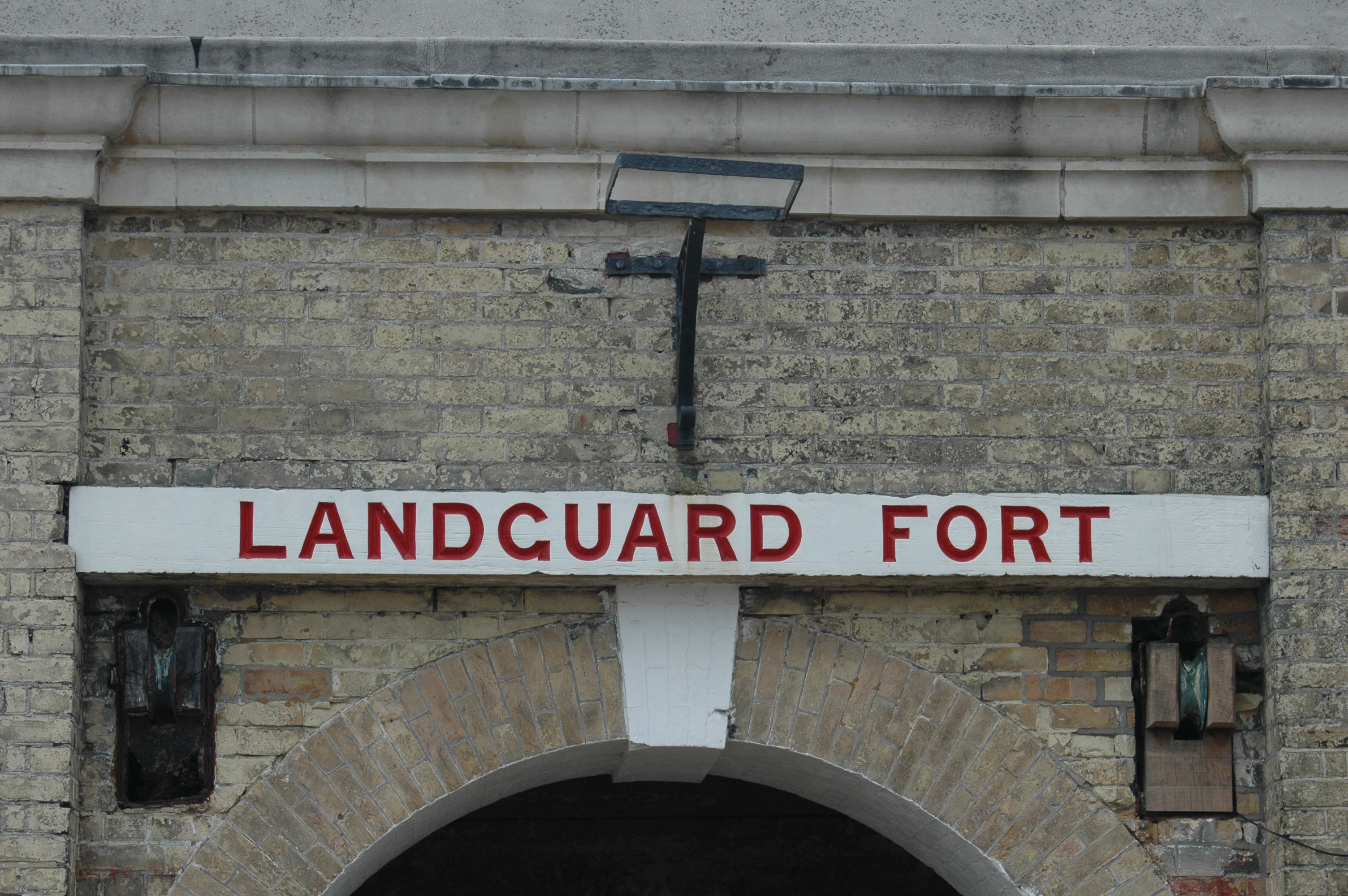 The sign at the main entrance to Landgard Fort.